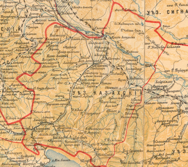 Kazakh uyezd on the Road map of Transcaucasia, 1903